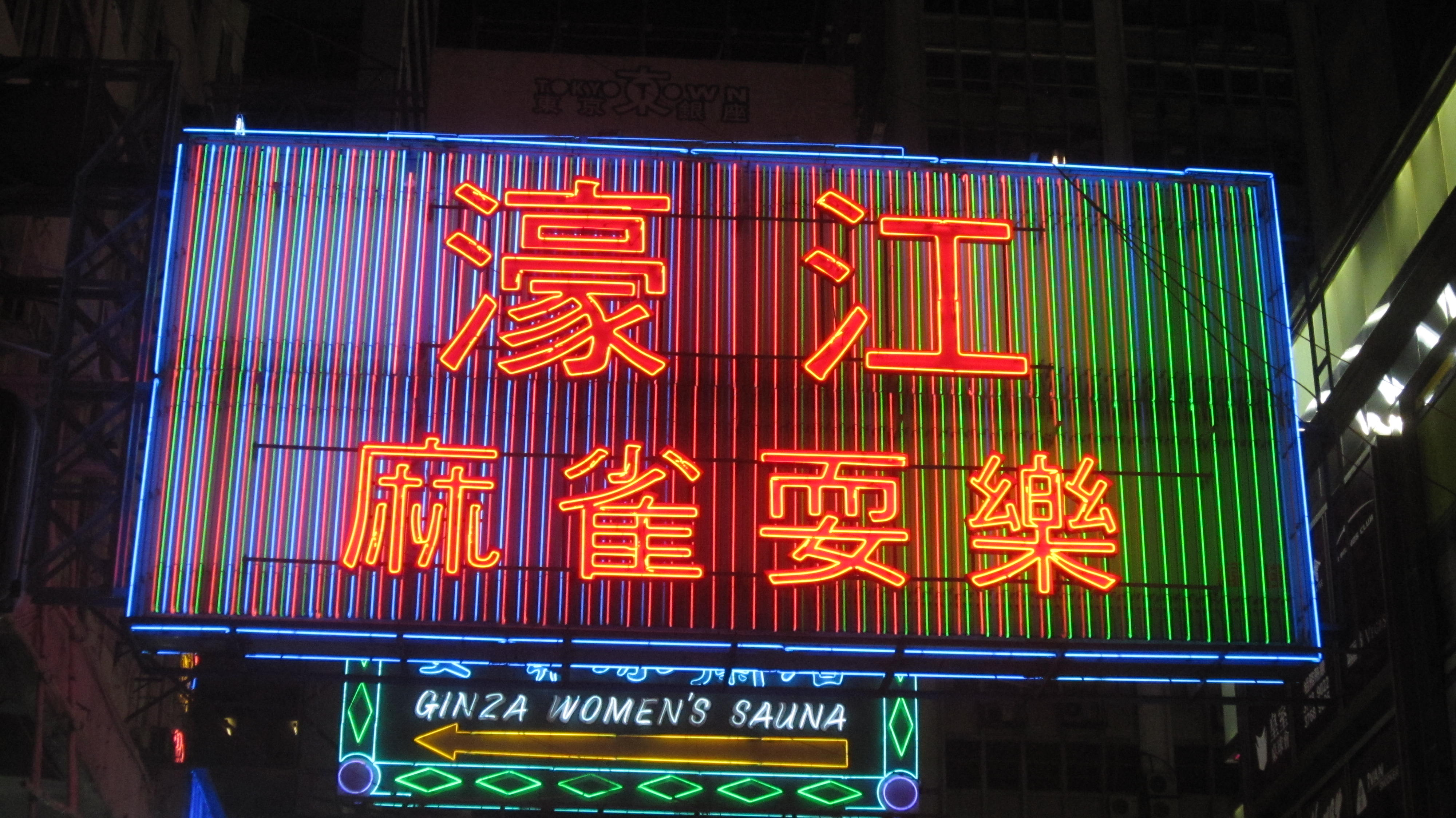 Mahjong school in Mongkok, Hong Kong